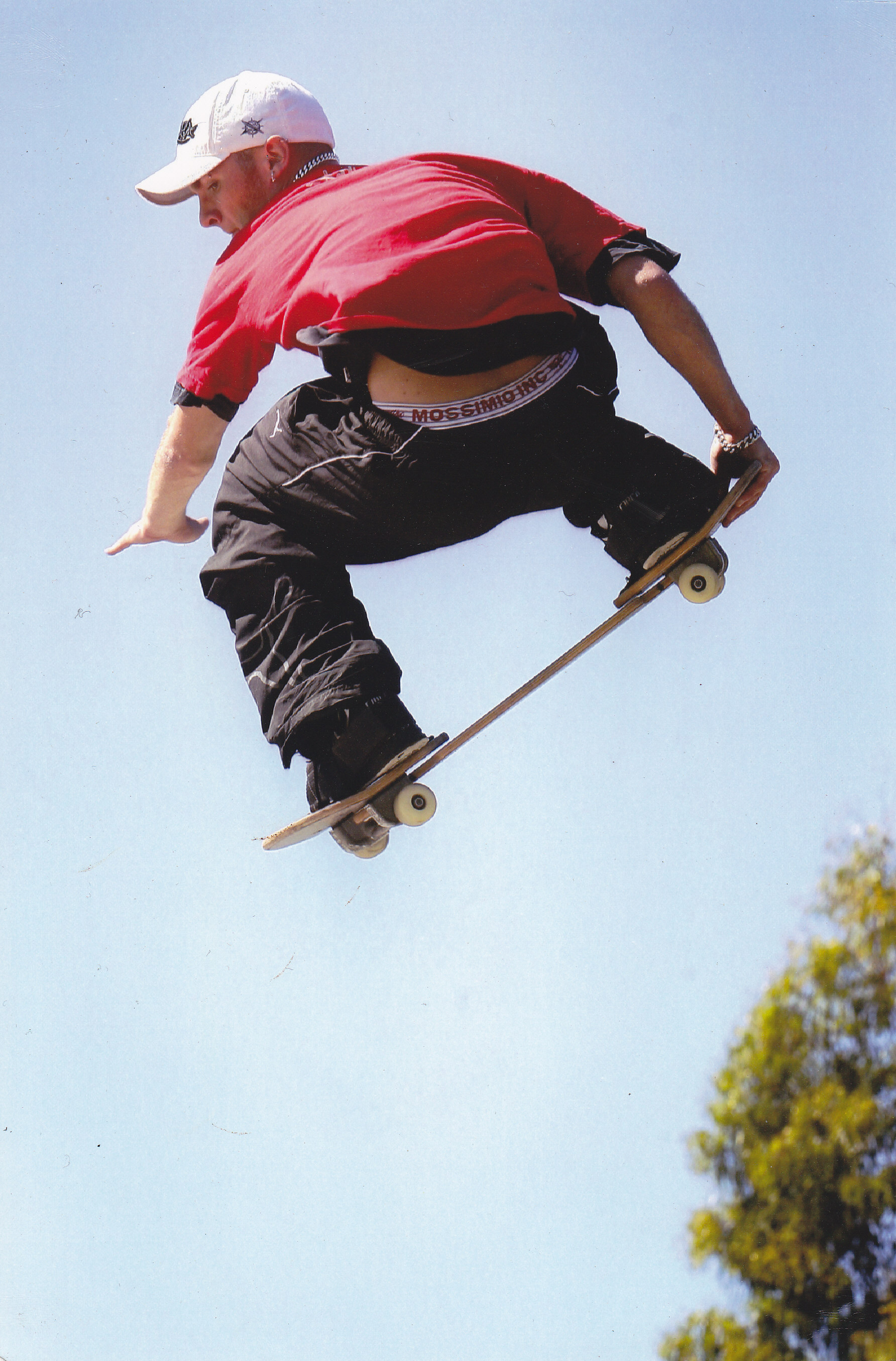 Photo of Australian streetboarder, Nick Robson, doing a 540 Tailgrab at the North Hobart Skatepark in Tasmania.